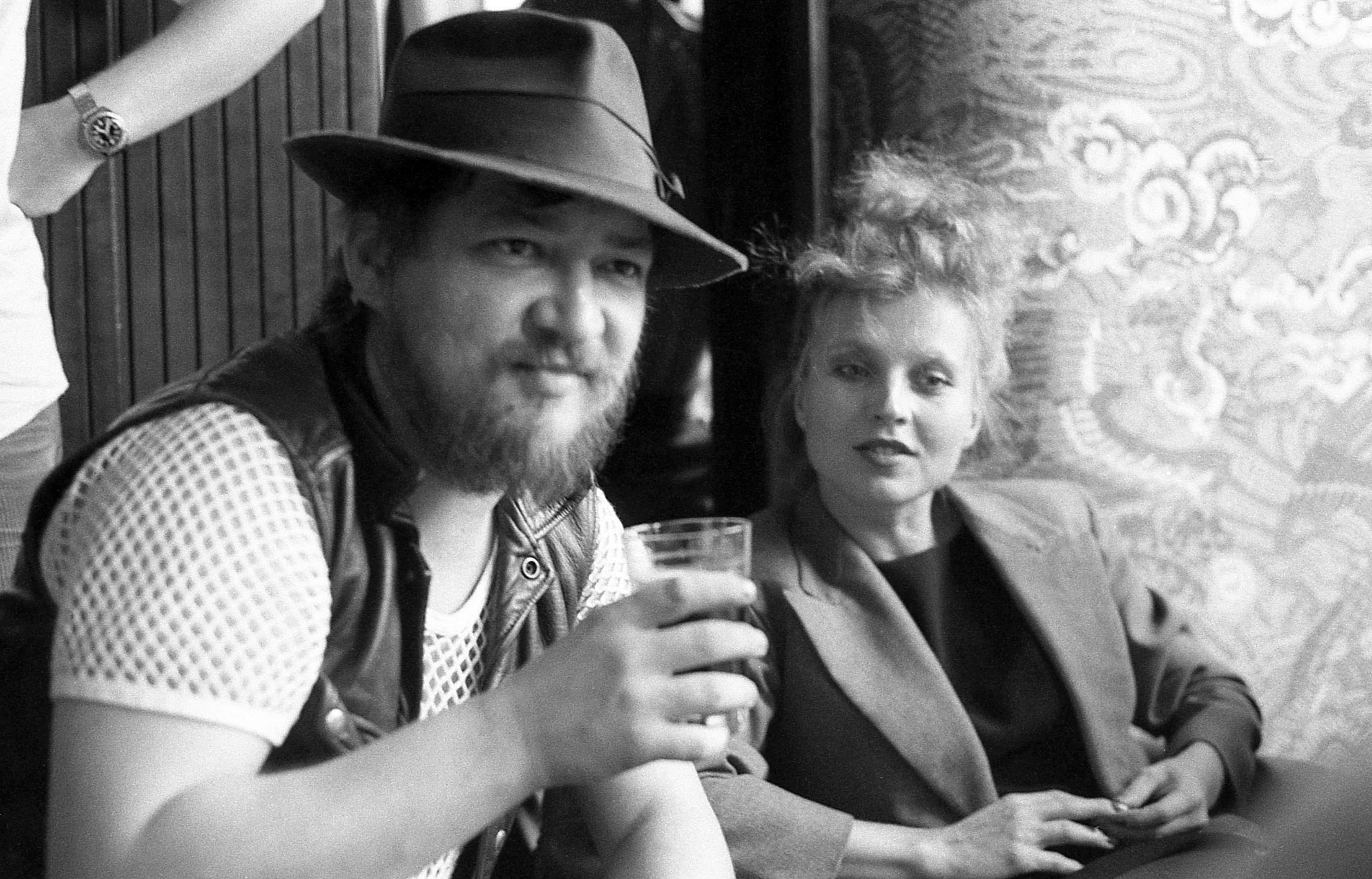 rainer werner fassbinder e hanna schygulla alla mostra del cinema di Venezia del 1980